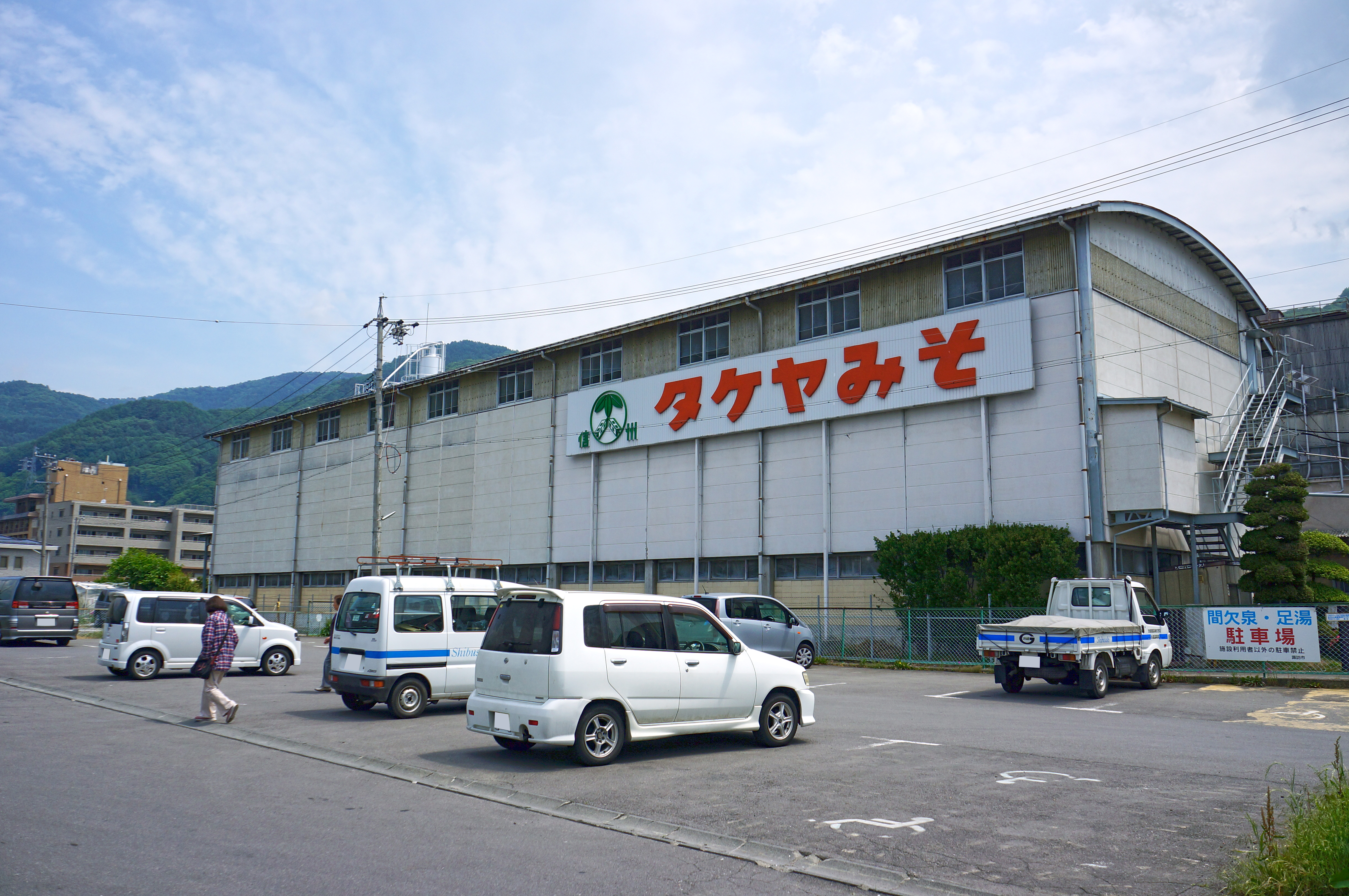 Headquarters building and factory of TAKEYA MISO in Suwa, Nagano prefecture, Japan.